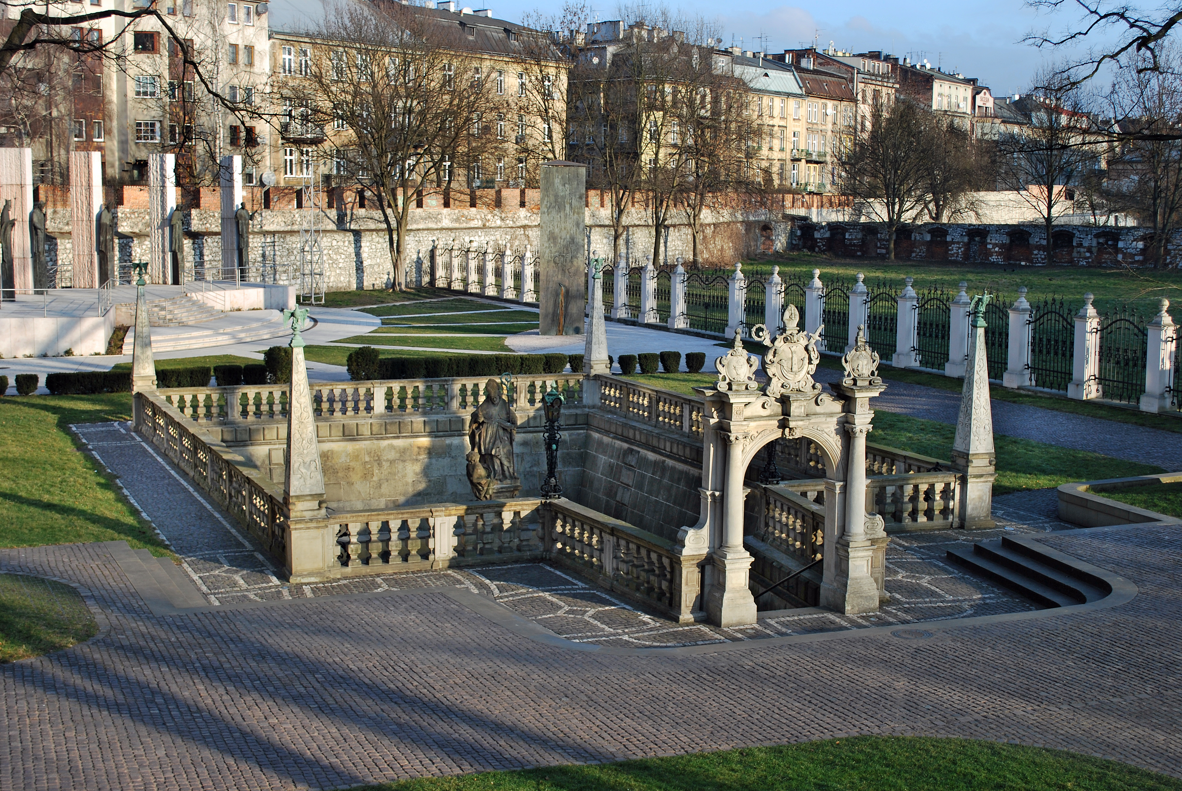 Church of St Michael the Archangel and St Stanislaus Bishop and Martyr, pool of St. Stanislaus, 15 Skałeczna street, Kazimierz, Krakow, Poland